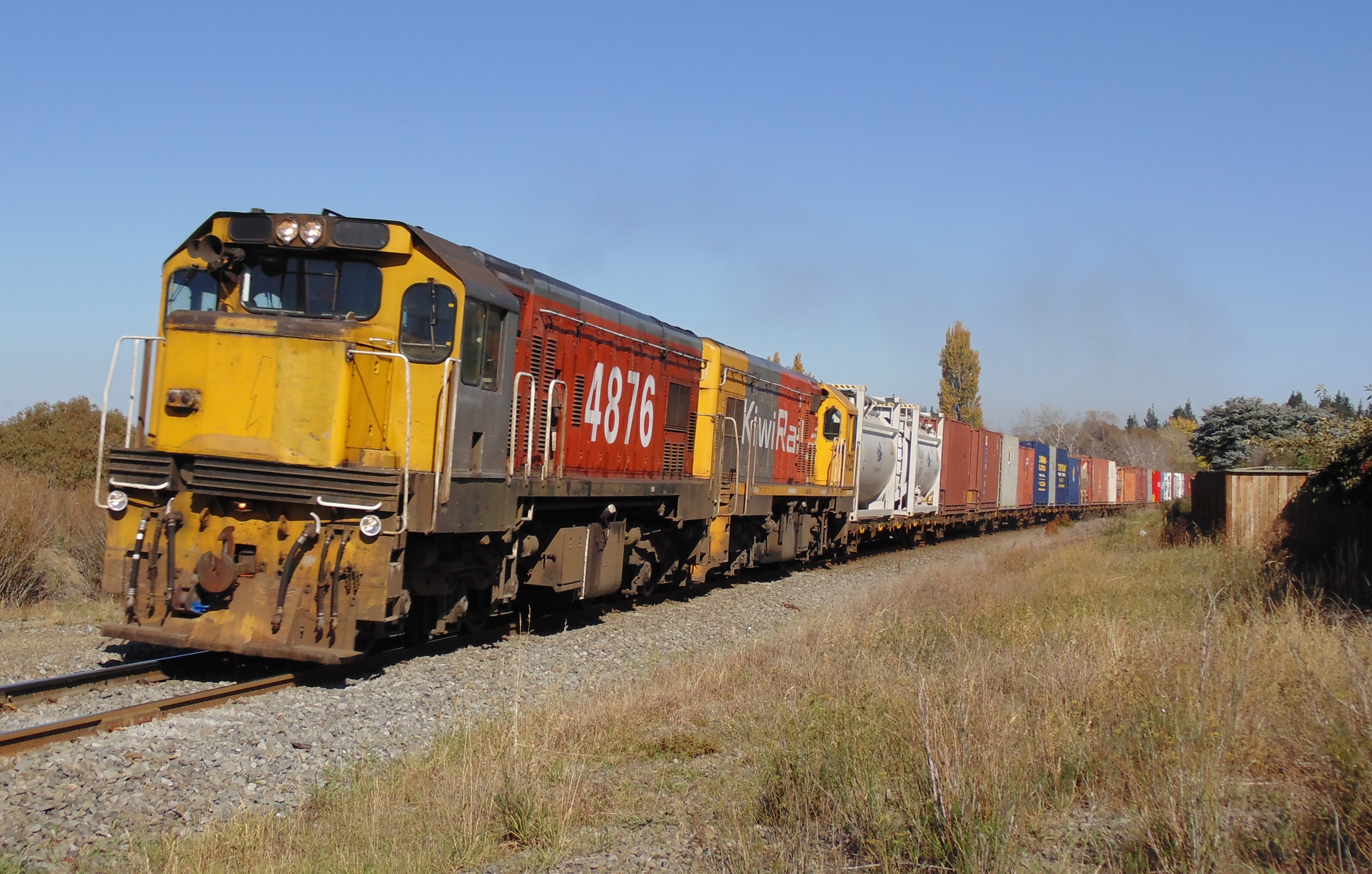 TrainboyMBH